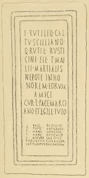 Roman gravestone, found on the area of Quinta de Torre de Aires, in the municipality of Tavira, Portugal, where the ancient roman city of Balsa was situated. This drawing was taken from Revista Archeologica e Historica, volume I, from 1887, (page 214) available at the website.